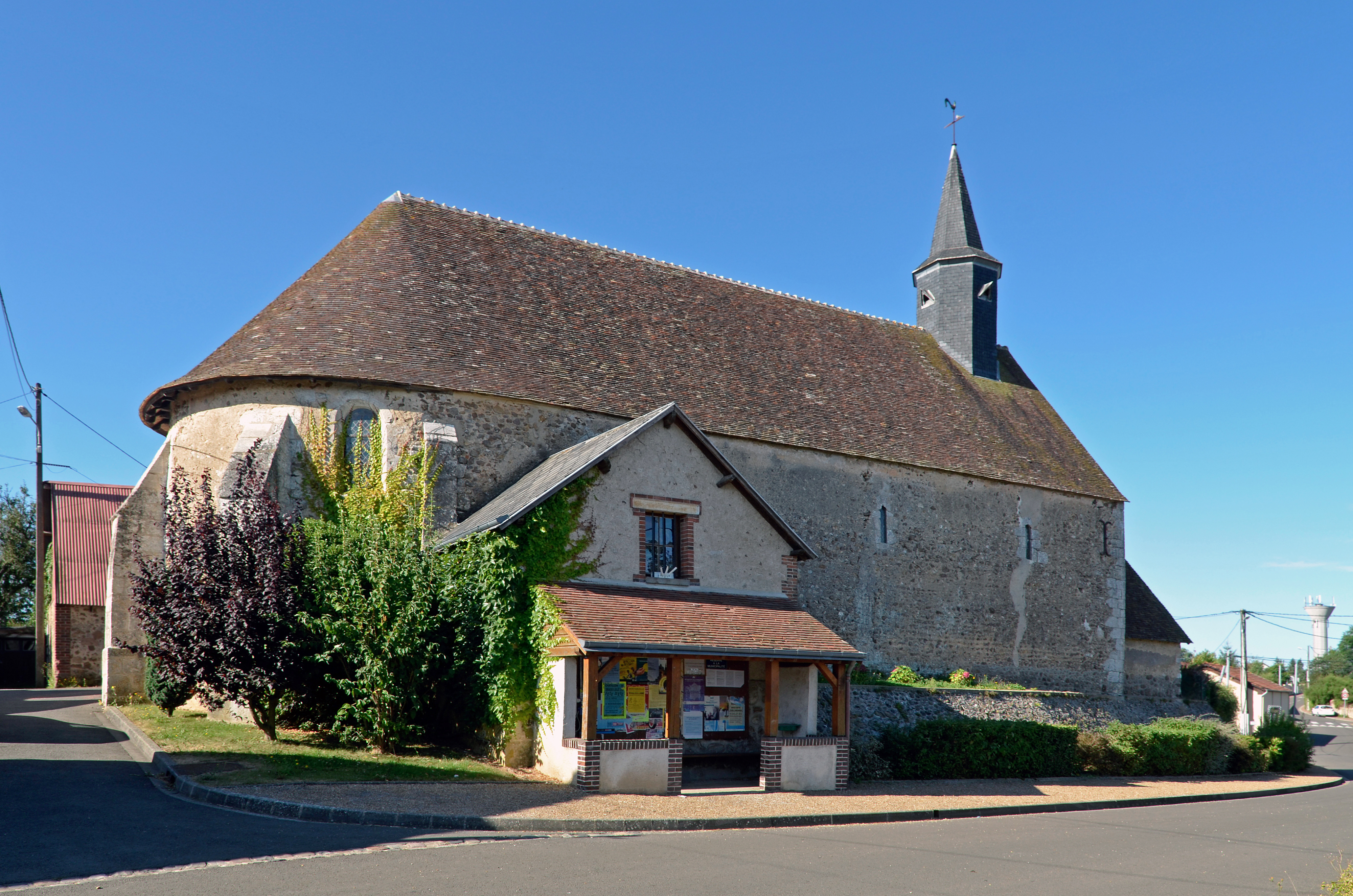 Saint-Martin church - Trizay-lès-Bonneval, Eure-et-Loir, France .